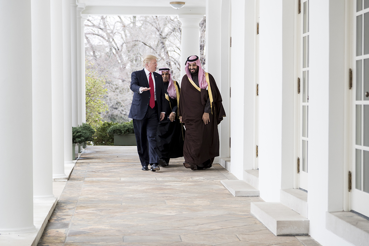 President Donald Trump walks with Mohammed bin Salman bin Abdulaziz Al Saud, Deputy Crown Prince and Minister of Defense of the Kingdom of Saudi Arabia, along the West Colonnade of the White House, Tuesday, March 14, 2017. (Official White House Photo by Shealah Craighead)